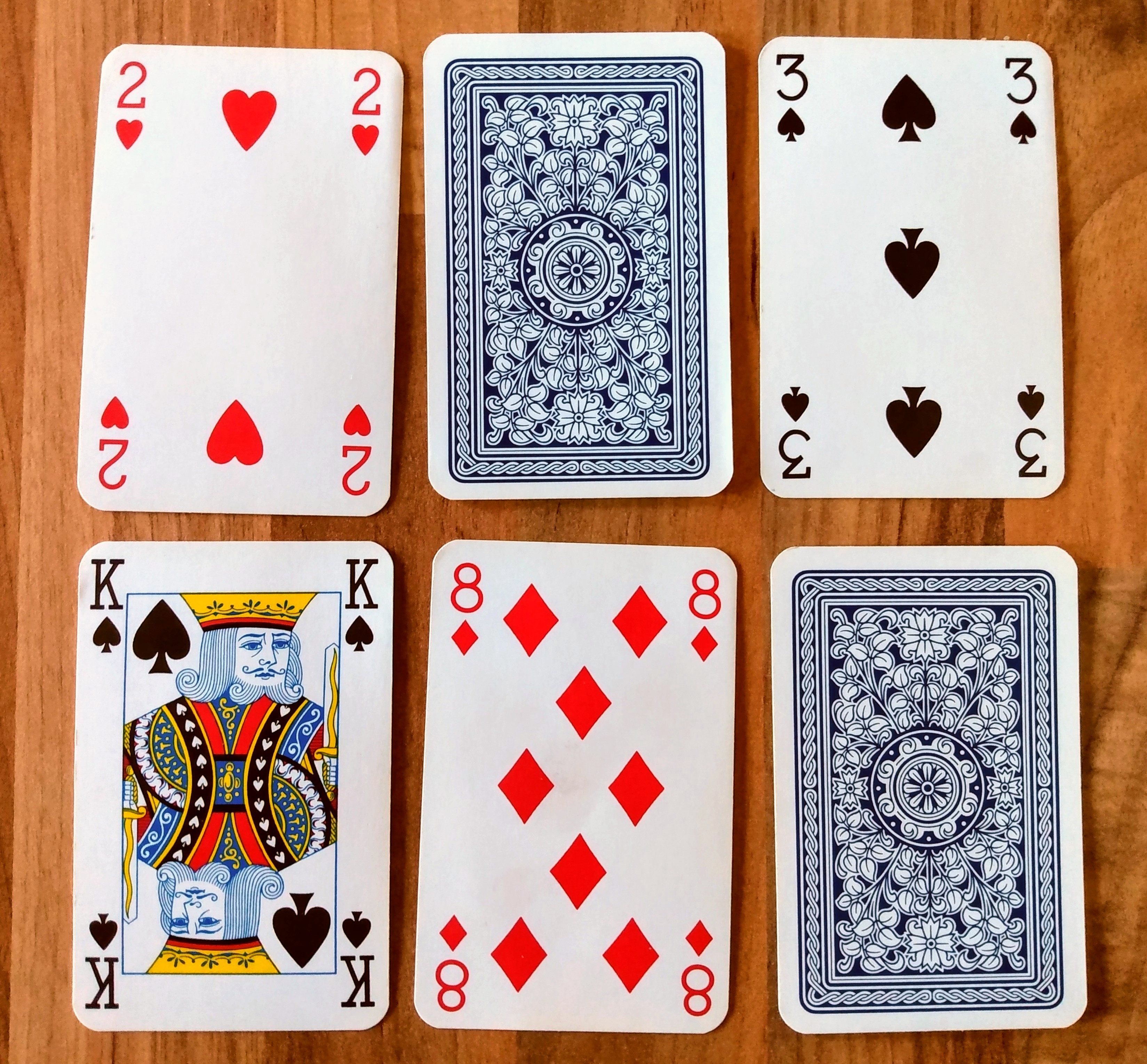 Card layout for six card golf.